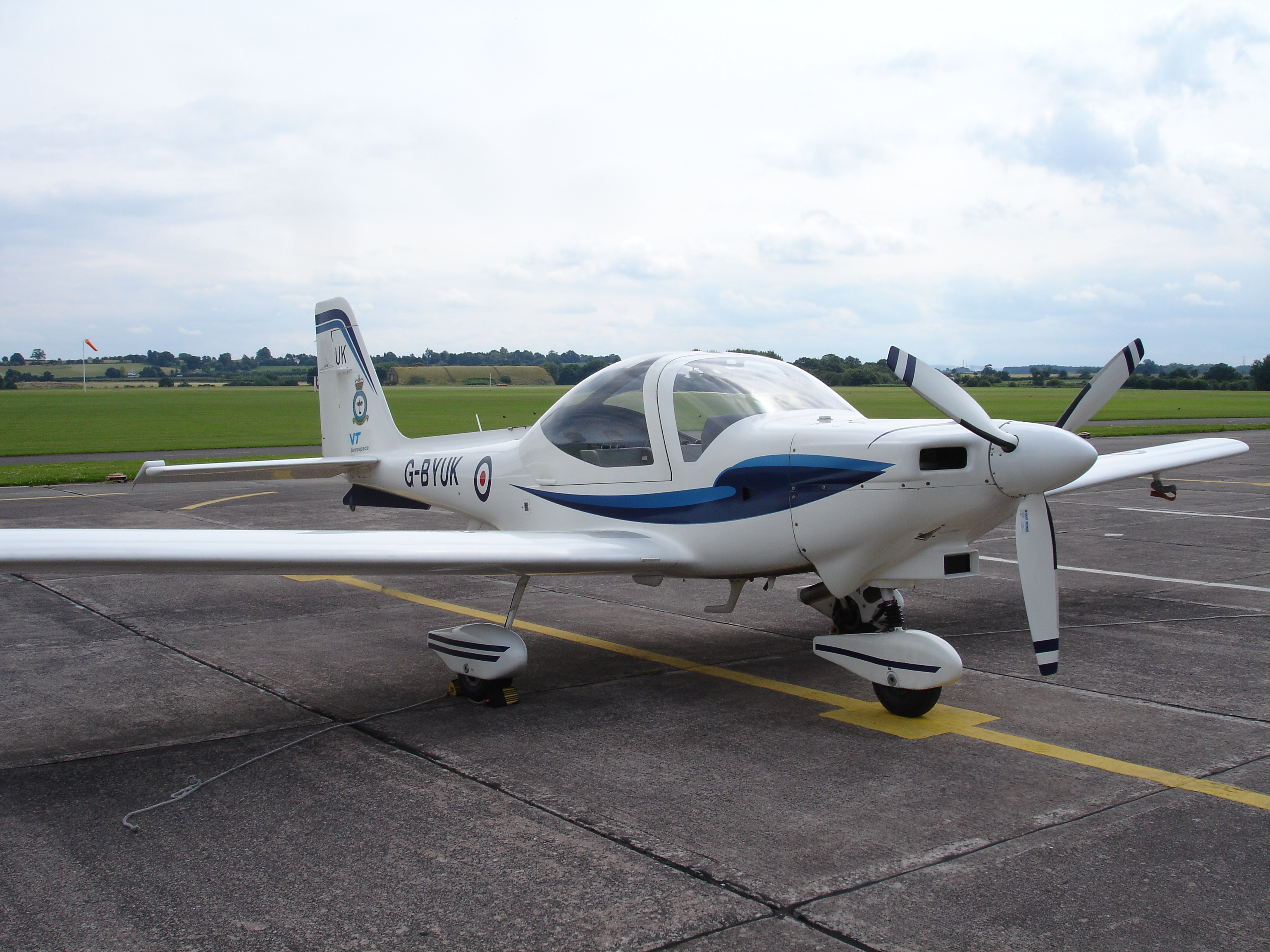 Grob G 115E. Taken by Steven Mason, 2007